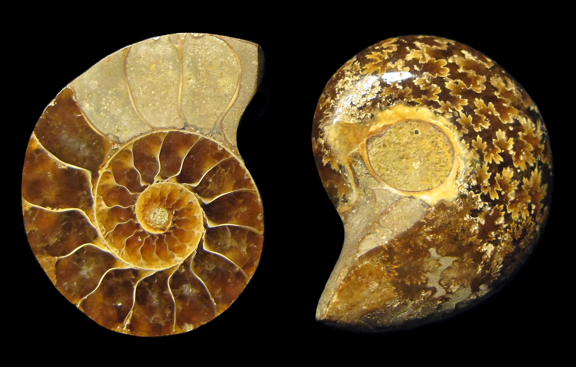 Ammonite, inside and outside, substituted by brownish yellow calcite (Pseudomorph)